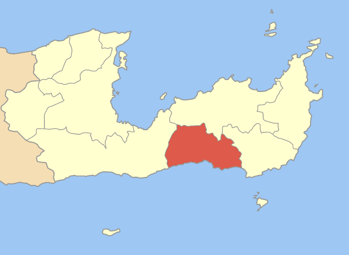 Locator map of Makrys Gialos municipality (Δήμος Μακρύ Γιαλού) in Lasithi prefecture (Νομός Λασιθίου) in Greece.